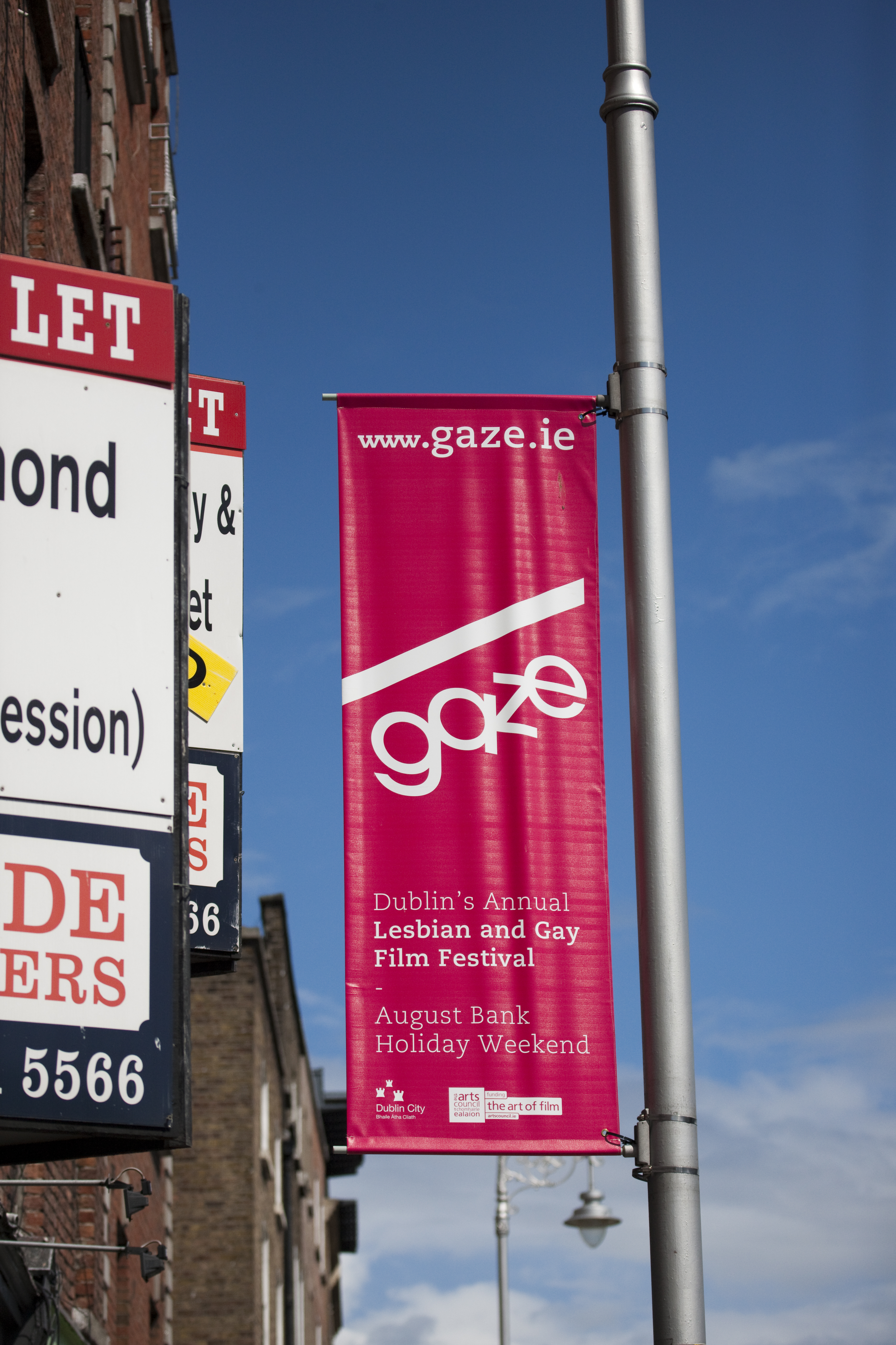 GAZE 2009 offers a programme jam-packed with over 67 premieres, new independent features, documentaries, shorts, award winners and experimental films this August bank holiday weekend. From its humble beginnings in 1992 (when homosexuality was still a criminal act in Ireland!), GAZE has grown from strength to strength to become the largest LGBT film event in Ireland, and one of the most respected in the world.